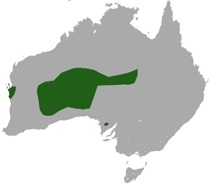 Hairy-footed Dunnart (Sminthopsis hirtipes) range